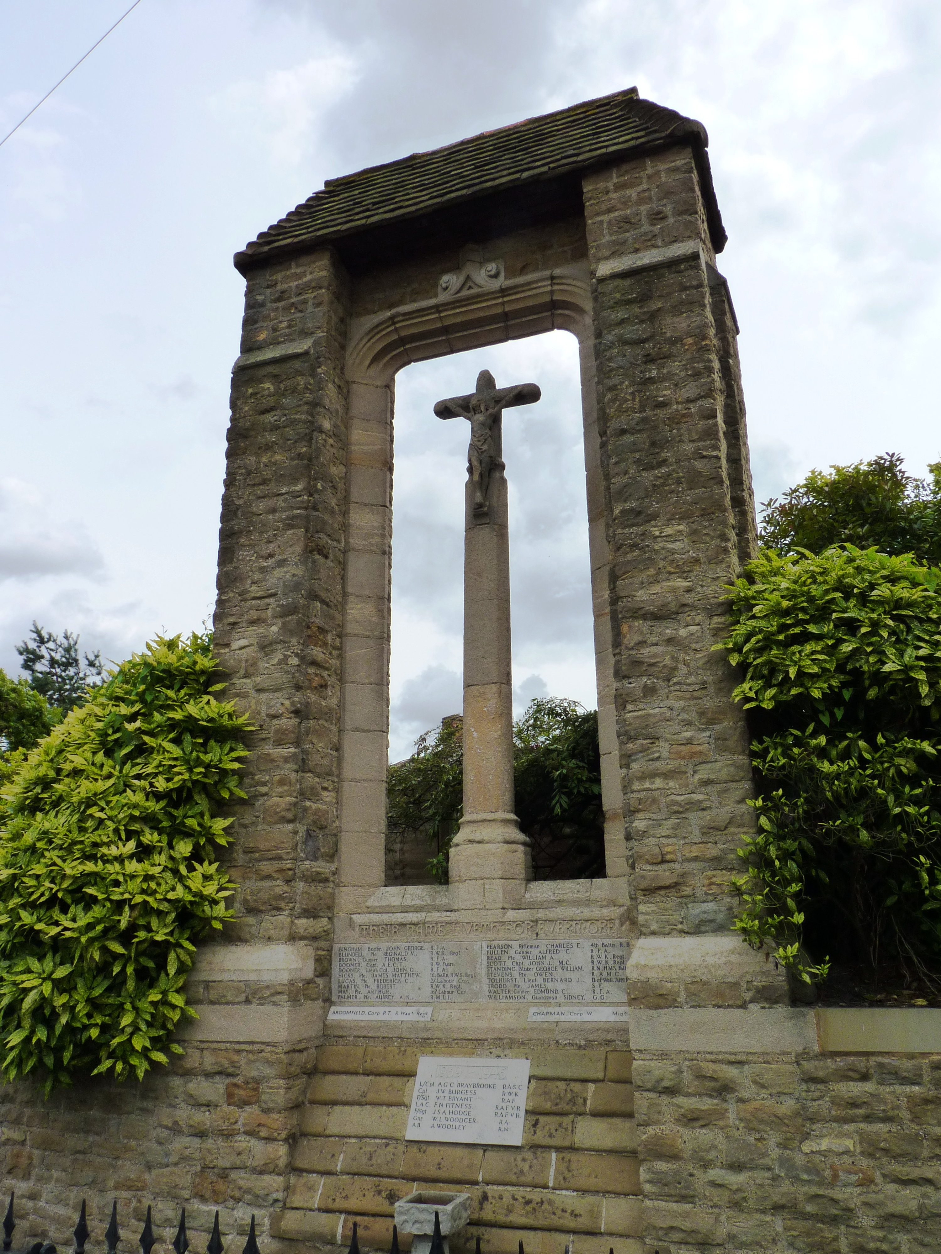 On the A20